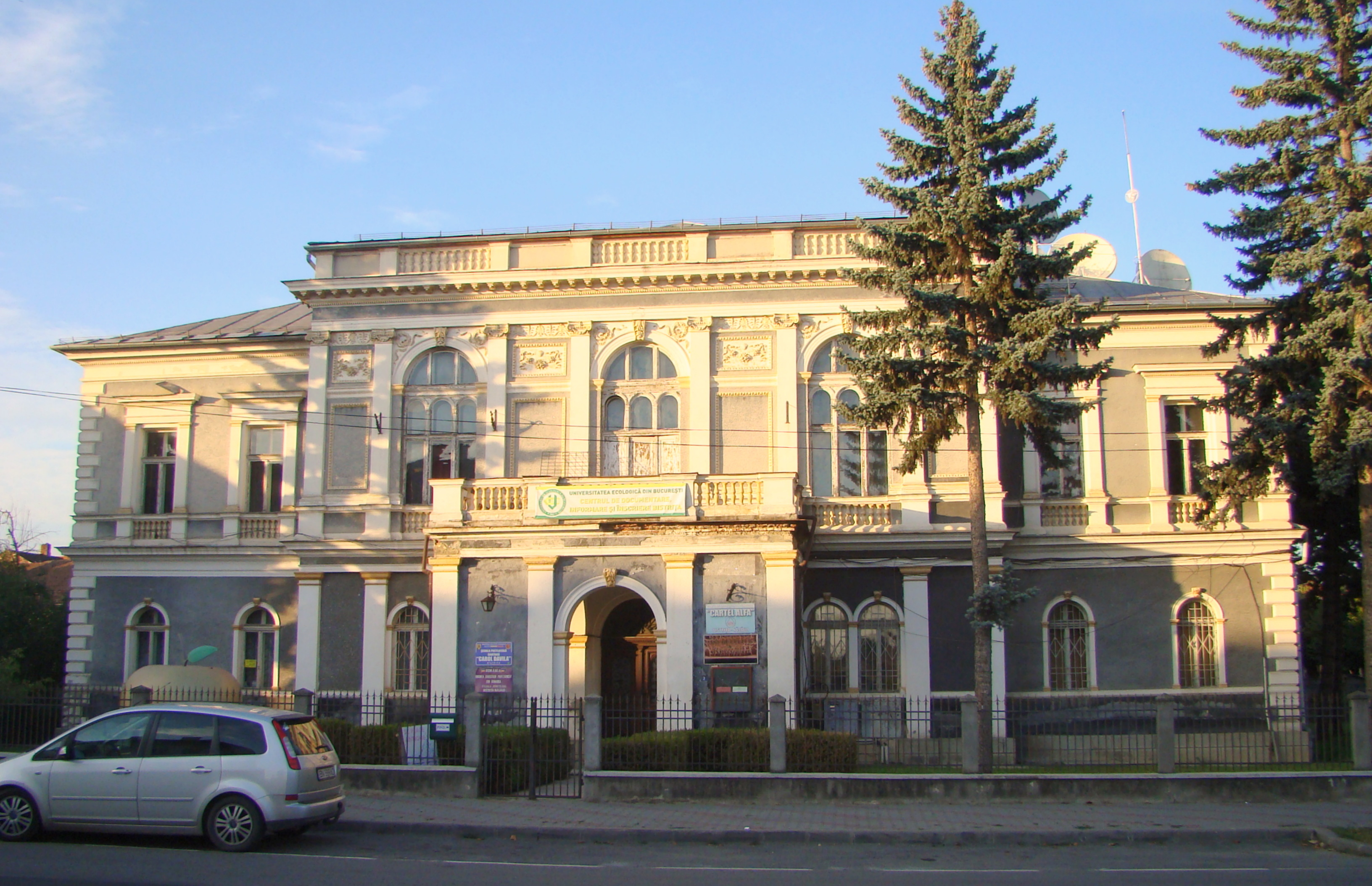 House, historic monument, in Bistrița, Alexandru Odobescu street 3